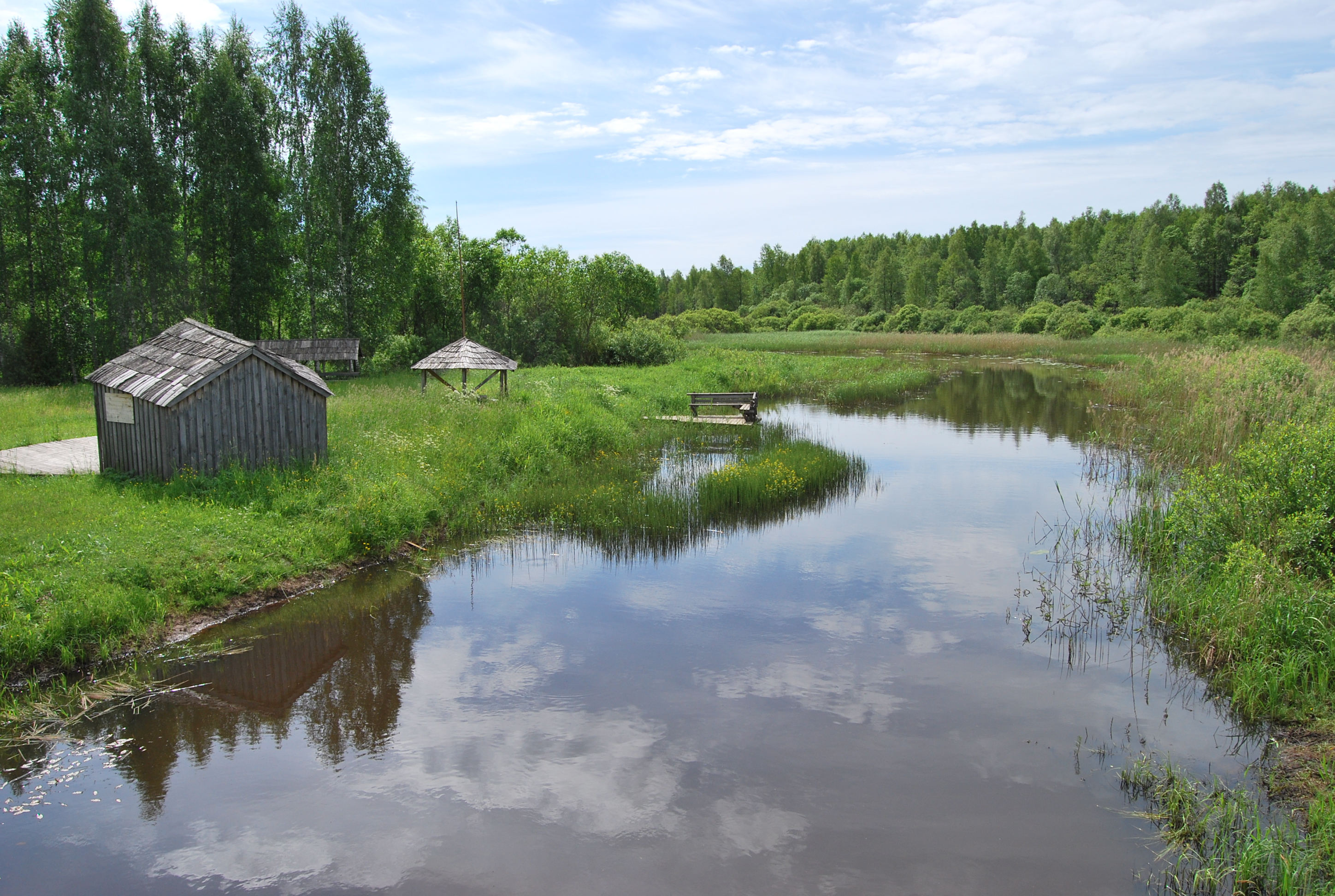 River Mädajõgi, located in Põlva District, Estonia.